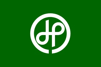 Flag of Ichinomiya Chiba